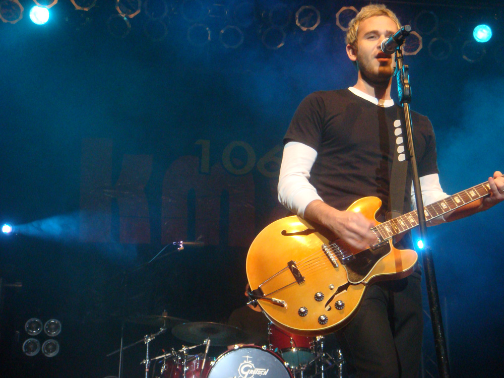 Jason Wade of Lifehouse performing live in Dothan, Alabama on December 19, 2008.